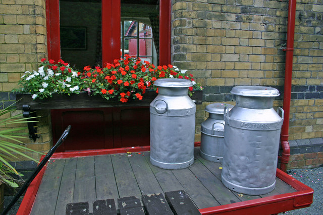 Haverthwaite Steam Railway A rare sight these days, milk churns on a railway platform trolley at Haverthwaite Steam Railway Museum